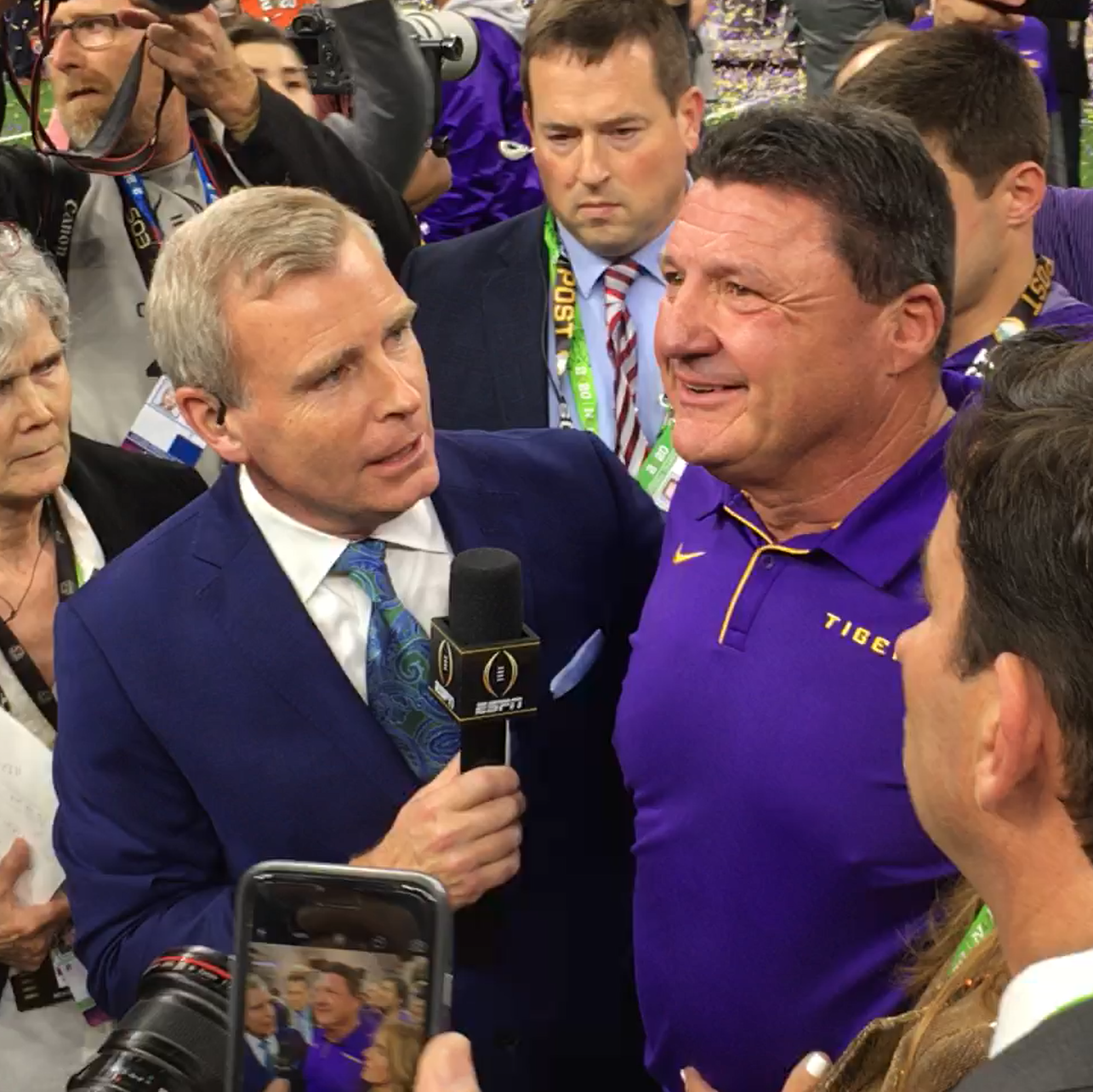 Tom Rinaldi interviews LSU head coach Ed Orgeron immediately after the 2020 College Football Playoff National Championship in the Mercedes-Benz Superdome in New Orleans.